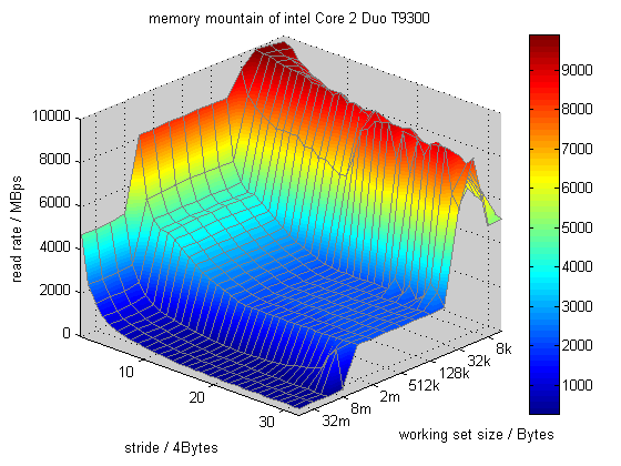 memory mountain of intel Core 2 Duo T9300, without unroll test loop